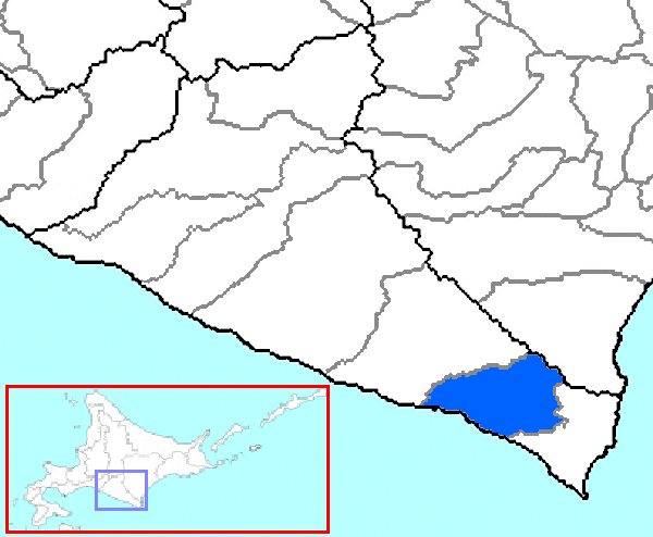 The location of Samani in Hidaka Subprefecture, Hokkaido Prefecture, Japan.